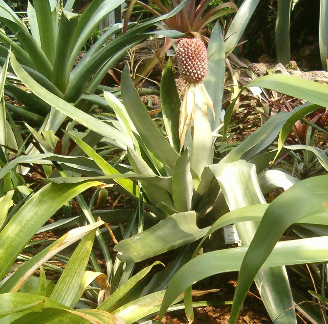 At Botanical Gardens Berlin-Dahlem Species Aechmea mariae-reginae